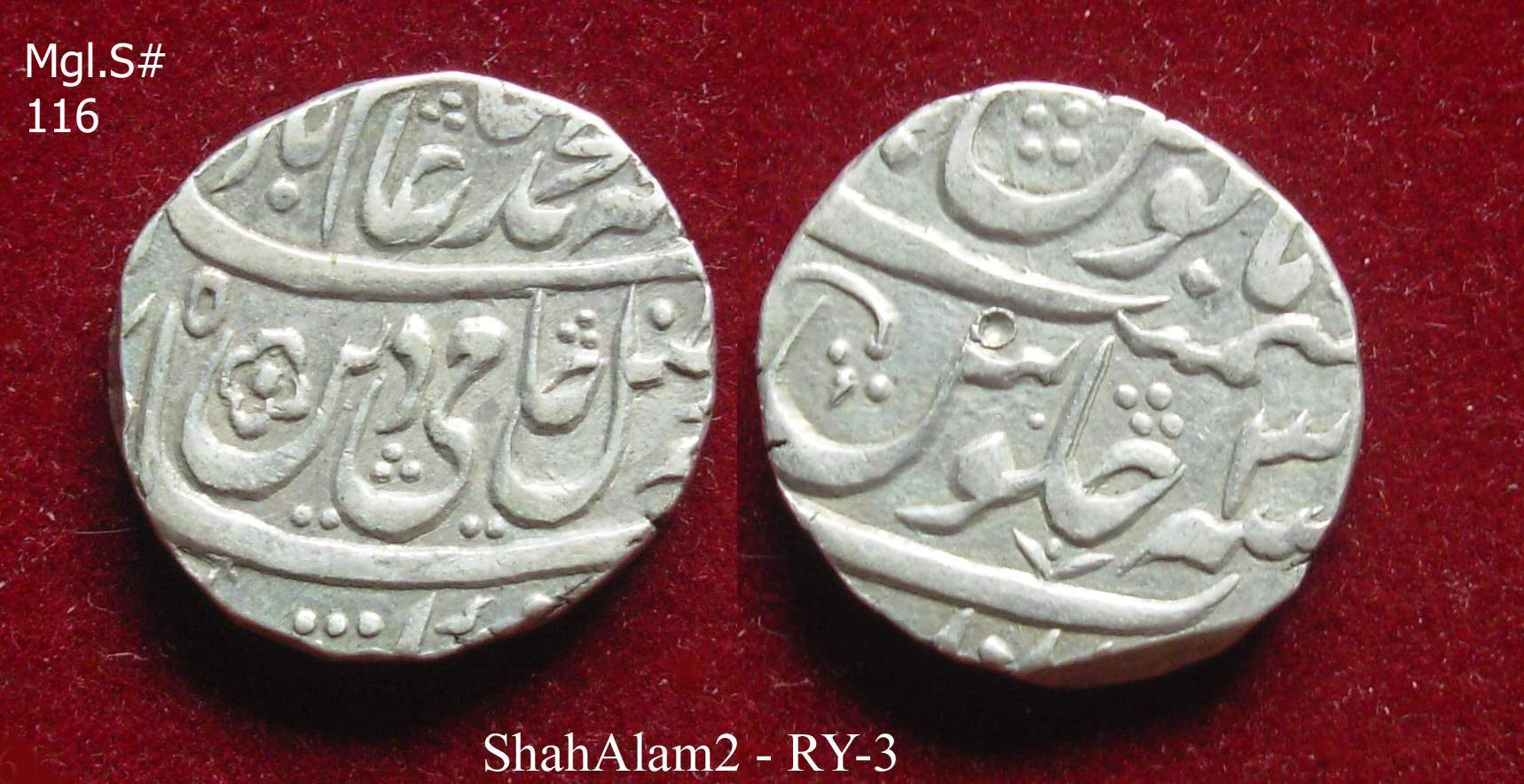 A silver rupee in the name of Shah Alam from my cabinet